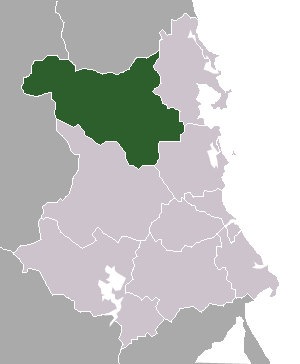 Location of Dong Xuan in Phu Yen Province